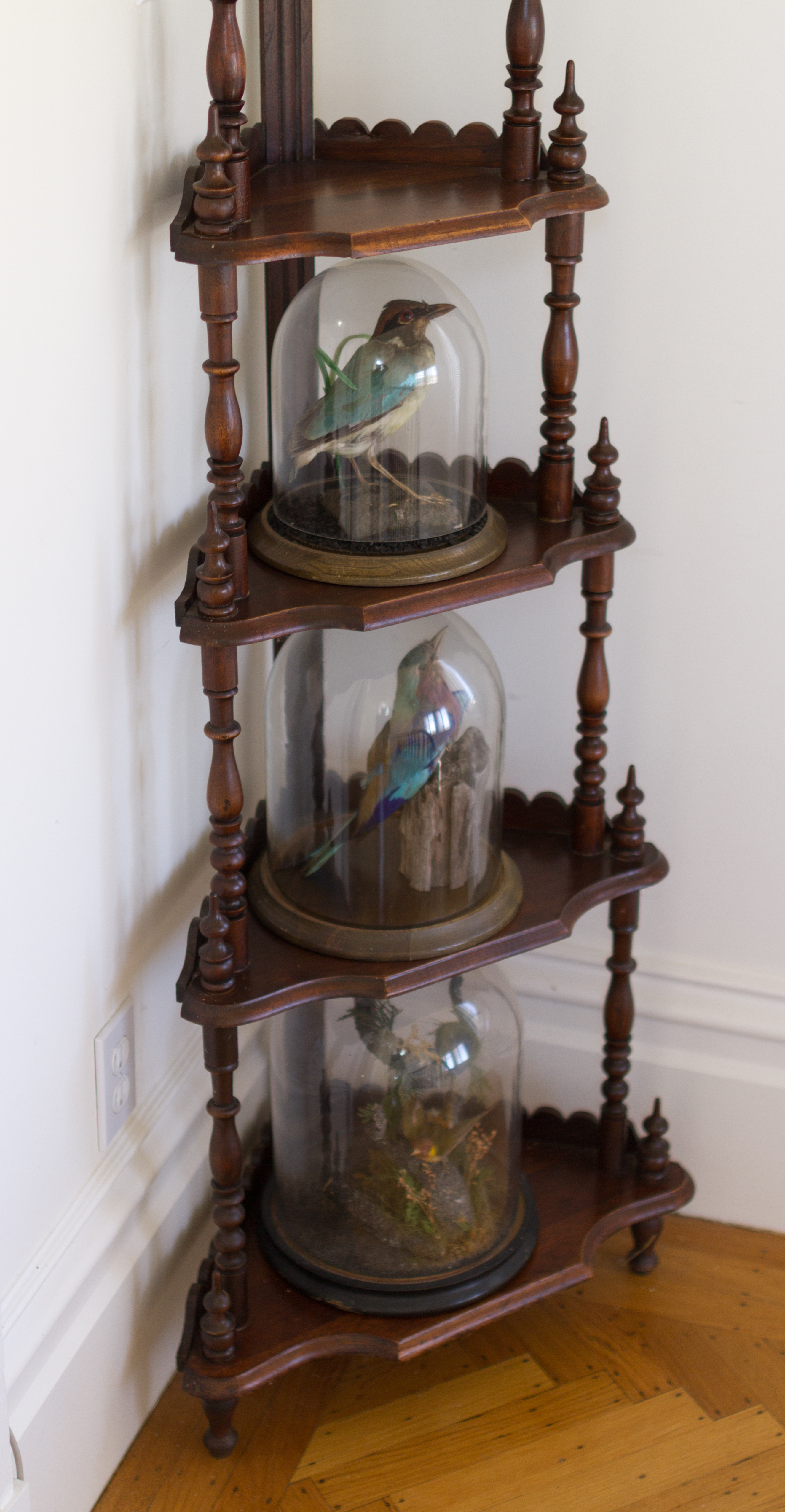 Stuffed birds on an etagere in the Lyford House, Tiburon, California.